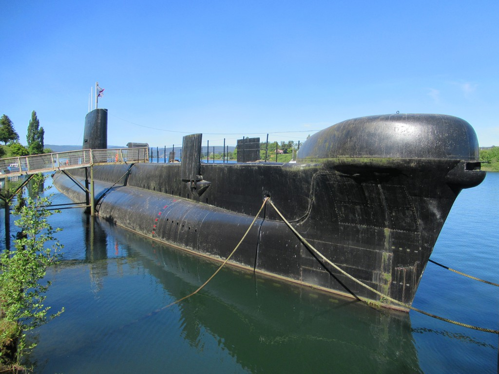 In 2002 the Chilean Navy sold the Oberon class submarine O' Brien (1972) to the city of Valdivia, Chile, where it currently serves as a museum.